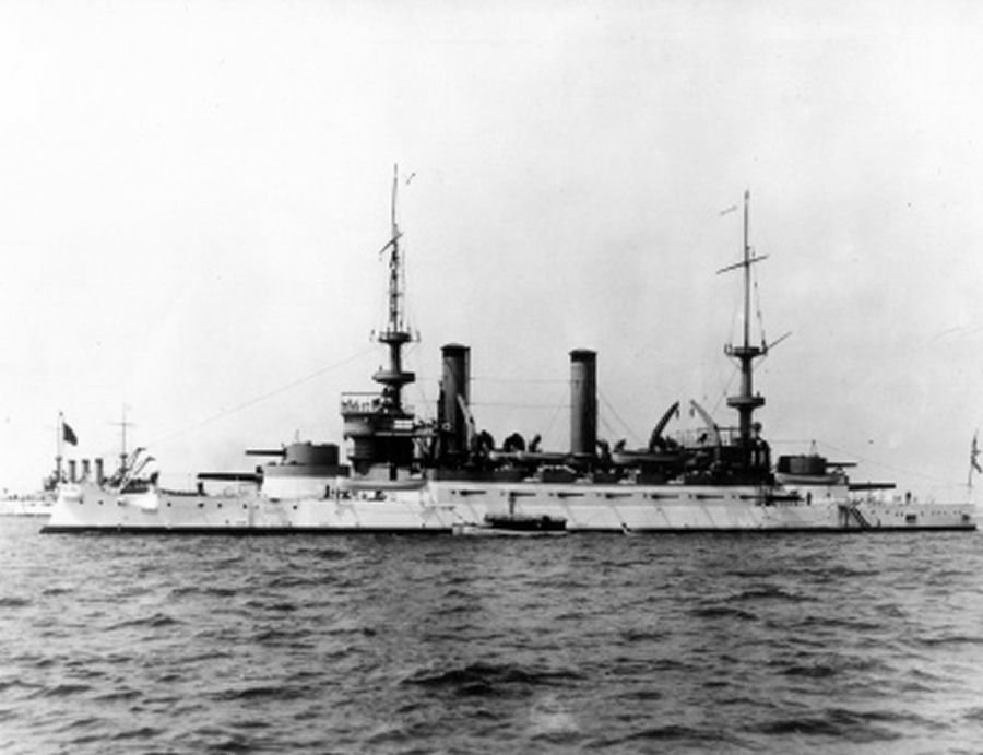 USS Kearsarge original Great White Fleet configuration Caption: World Cruise of the "Great White Fleet", 1907-09. Kearsarge (BB-5) is in the foreground, with a Miane class (BB-10 / 12) or Virginia class (BB-13 / 17) battleship in the background.